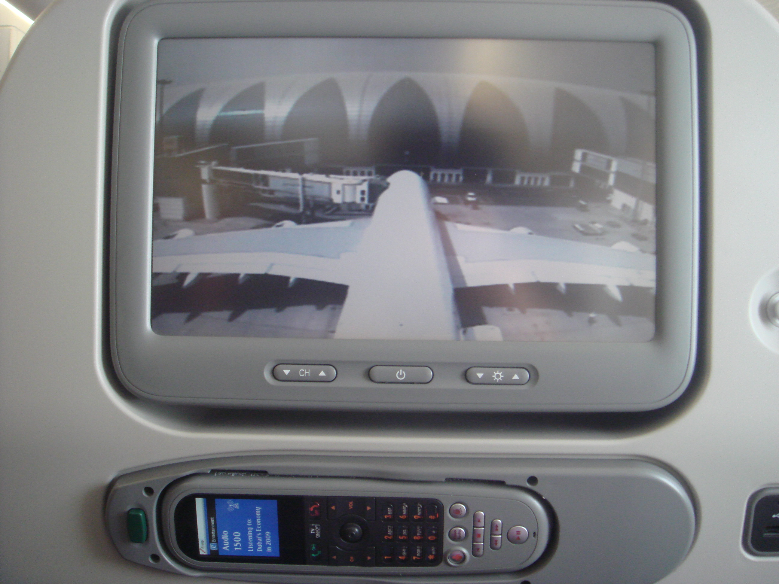 The Emirates A380 personal entertainment system (ICE) on the seat back, showing the view of Dubai International from the camera built in to the aircraft's tail.